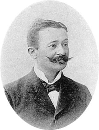 J. L. Janson, Professor of Veterinary Medicine.